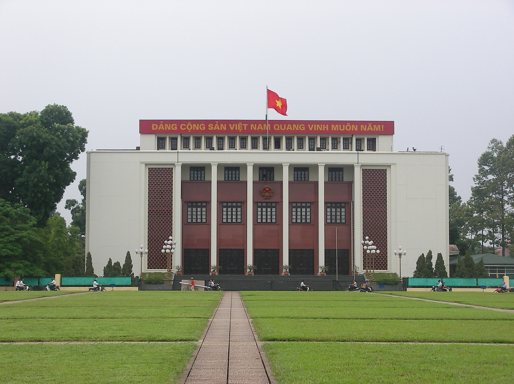 Ba Đình Hall in Hanoi